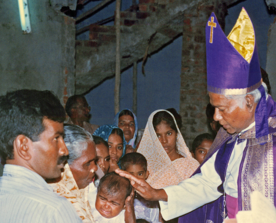 The 9. Bishop of Tranquebar Jubilee Gnanabaranam Johnson of the Tamil Evangelical Lutheran Church of Tamil Nadu baptizes a child in a village church.